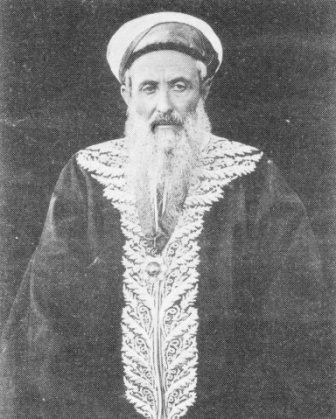 Elijah Moses Panigel, sephardi chief rabbi of Jerusalem (1907)